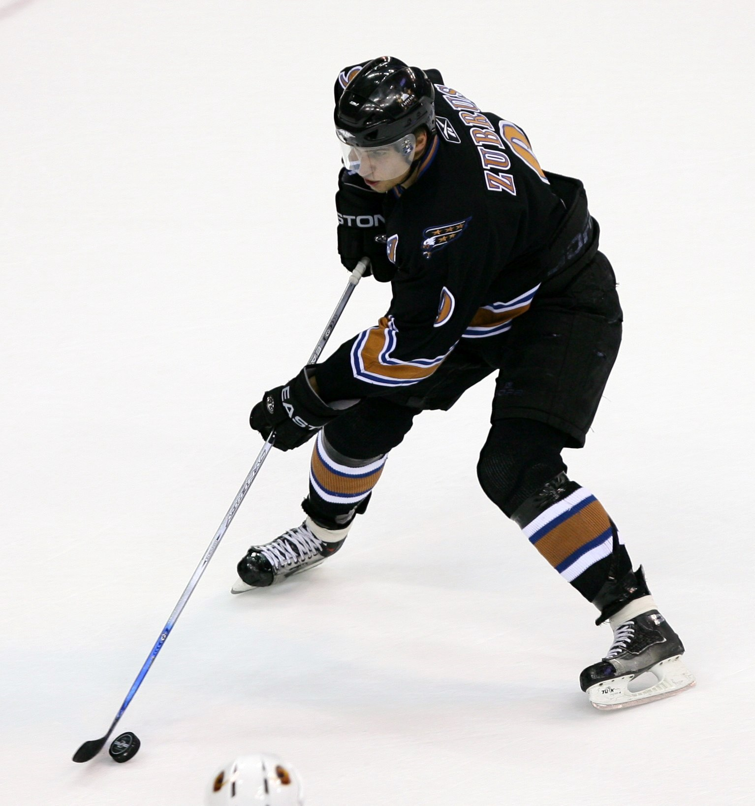 National Hockey League player Dainius Zubrus with the Washington Capitals in 2007.